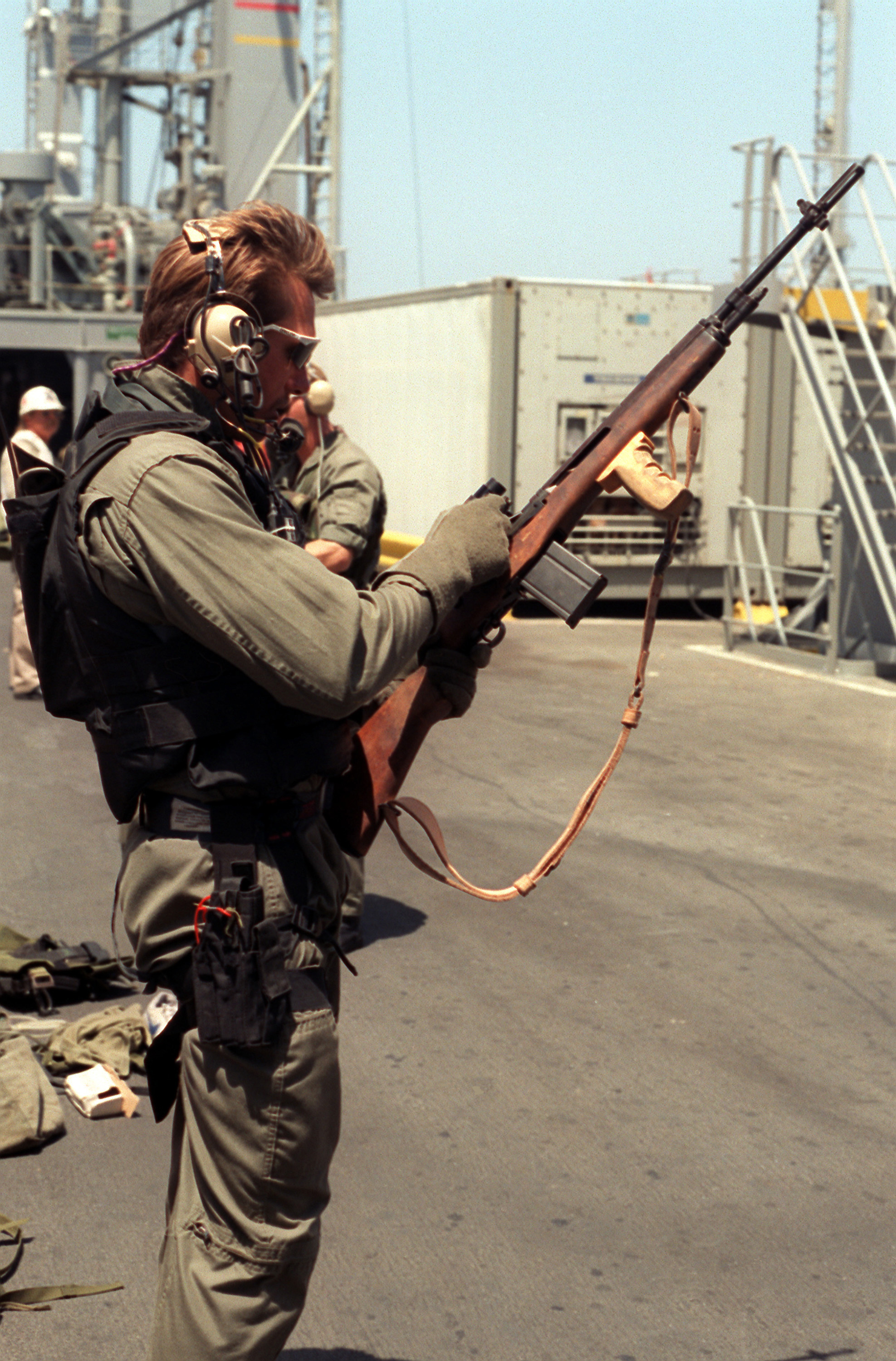 A member of Sea-Air-Land (SEAL) Team 8 checks his 7.62mm M-14 rifle aboard the fleet oiler USNS JOSHUA HUMPHREYS (T-AO-188). SEAL Team 8 is providing boarding teams to assist the Maritime Interception Force in their enforcement of U.N. sanctions against Iraq during Operation Desert Storm. (Released to Public)